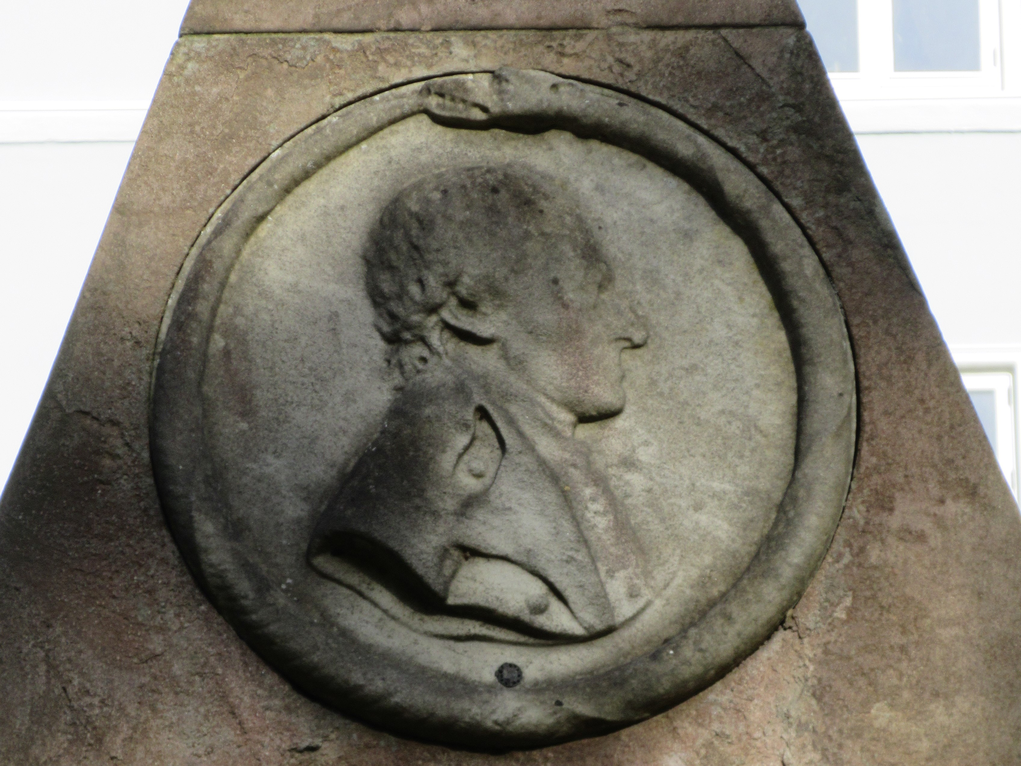 Relief on Johan Leonhard Fix's timb in Assistens Cemetery in Copenhagen, Denmark